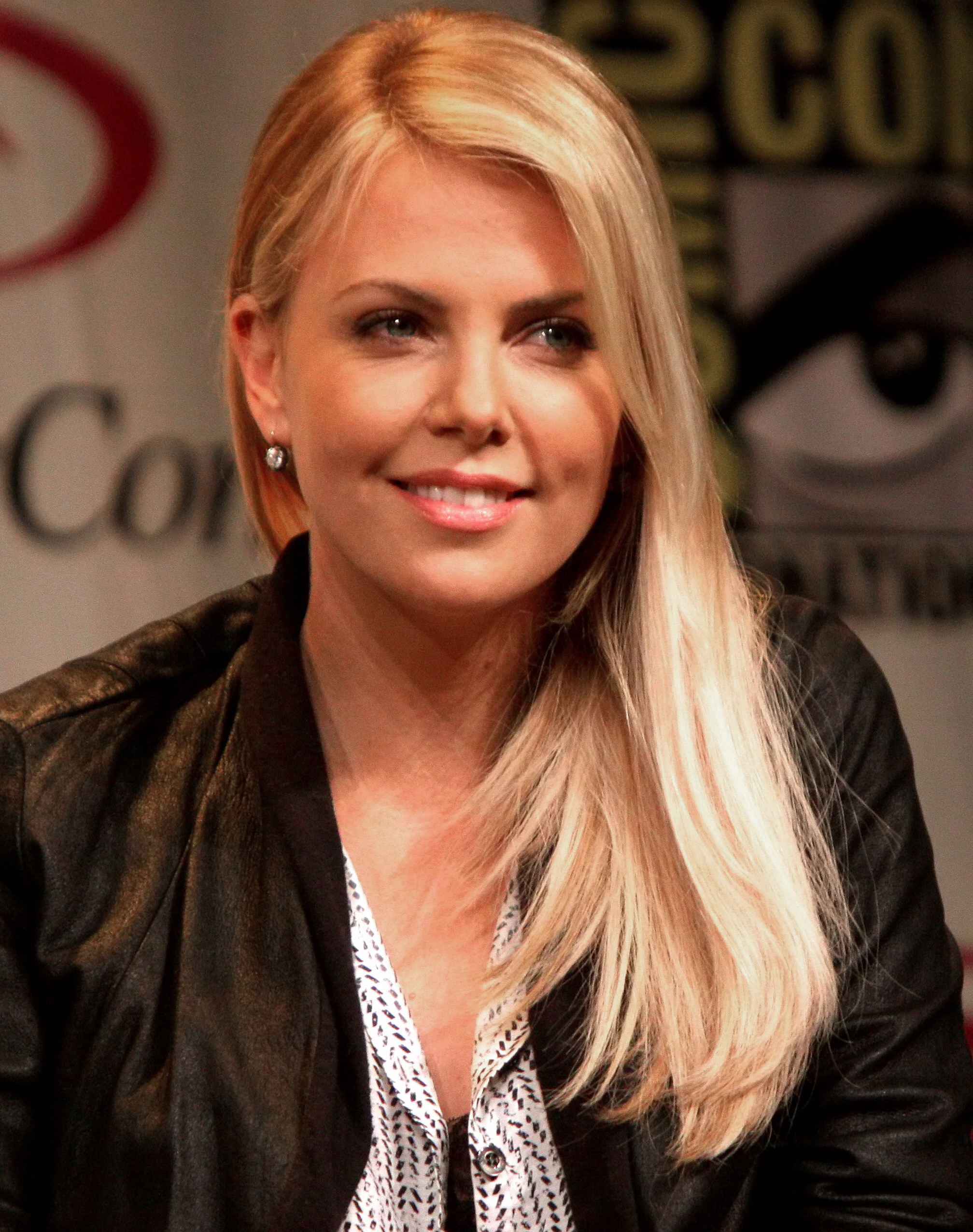 Charlize Theron speaking at the 2012 WonderCon in Anaheim, California.